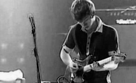 Alex Turner, wokalista Arctic Monkeys